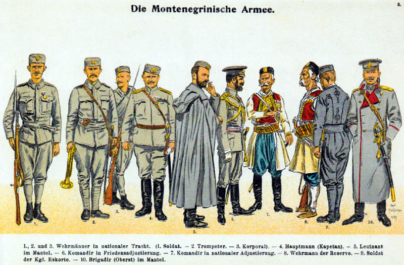 Field uniforms of the Montenegrin Army, 1914